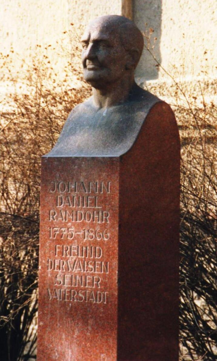 Memorial of Johann Daniel Ramdohr Aschersleben